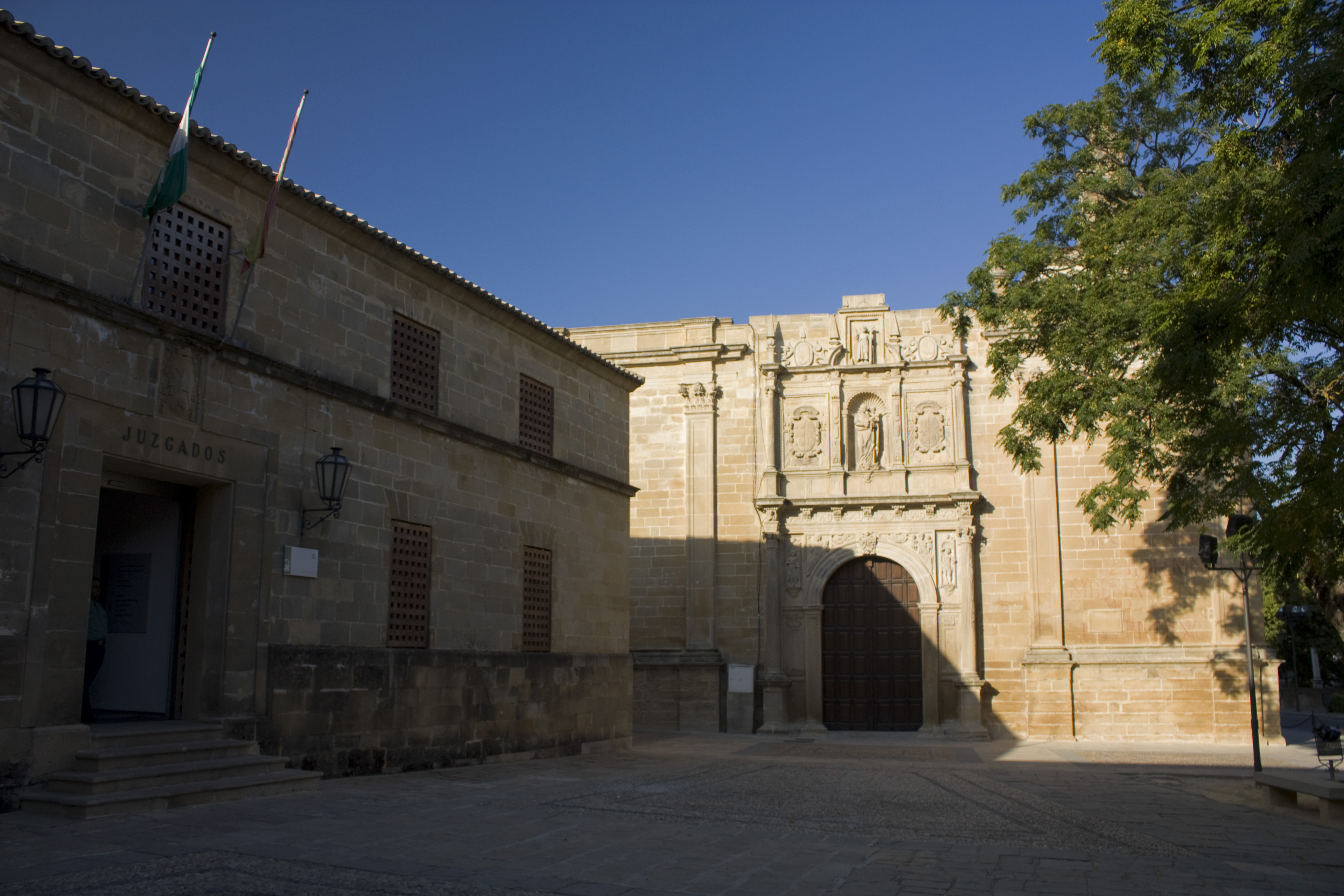 Door of the cloister of Santa Maria, separated of the court by the gate of the prison of the Holy Inquisition.